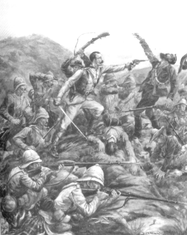 Captain Towse shoots at Lt Col Maximov at point-blank range (courtesy of Africana Library in Johannesburg).